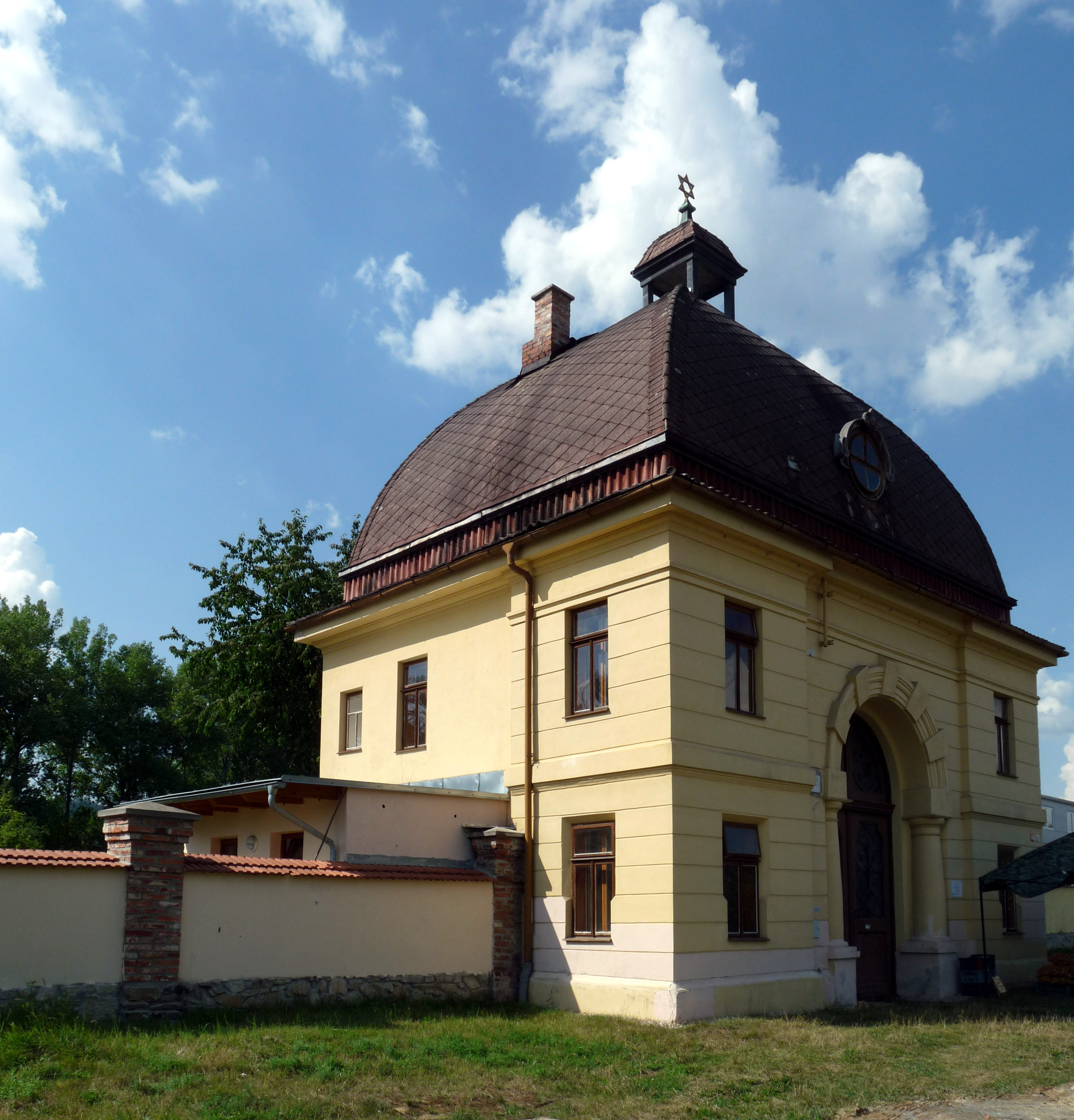 Ceremonial hall in the Jewish cemetery in the town of Šumperk, Olomouc Region, Czech Republic.